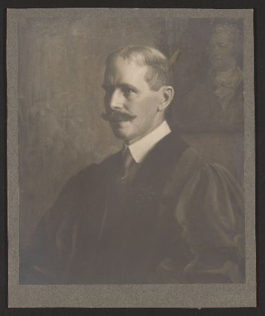 John Henry Wigmore (1863-1943)